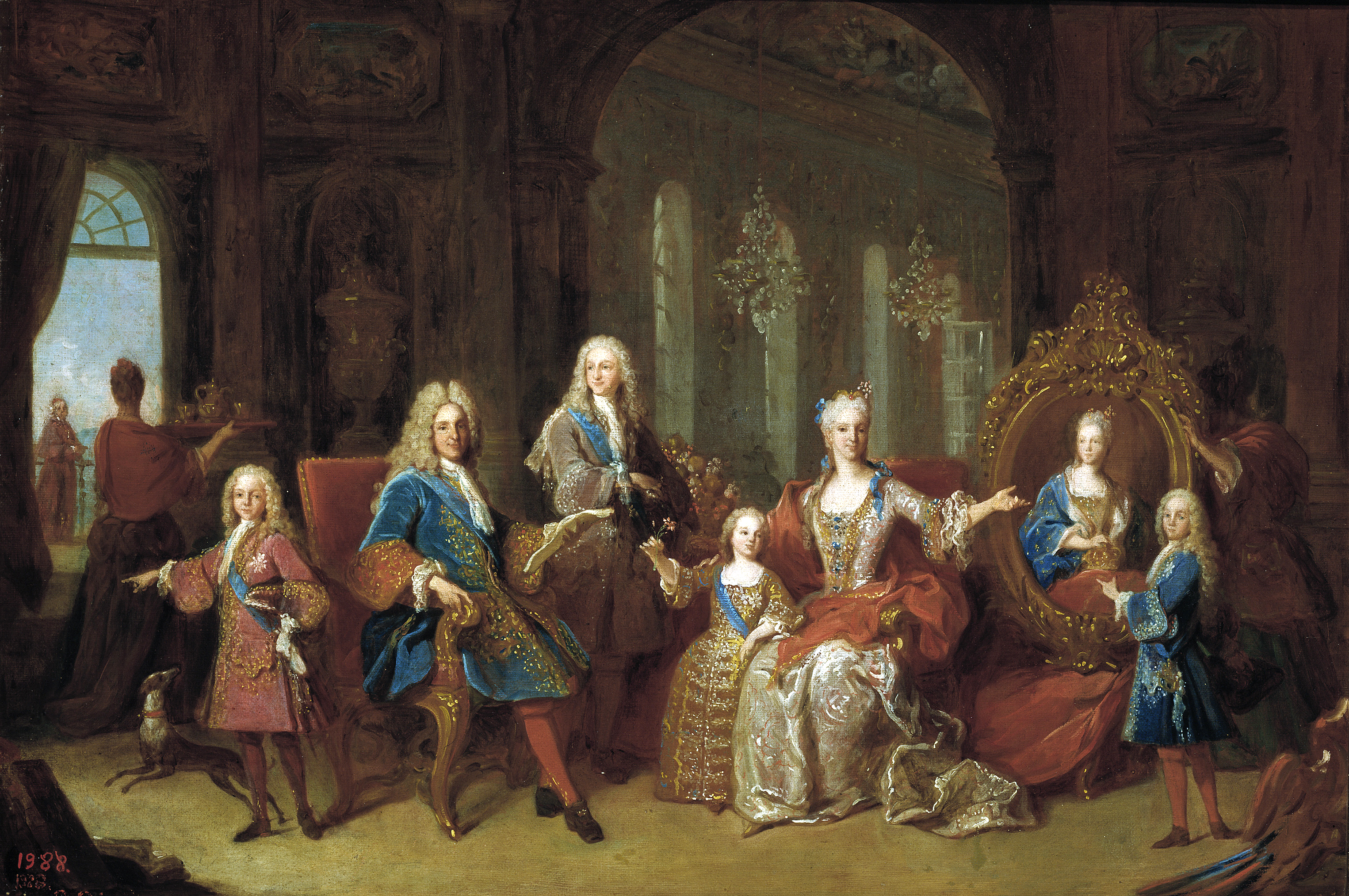 Philip V of Spain with his wife Elisabetta Farnese and his descendants.